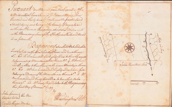 Survey of 330 Acres in Augusta County for Edward Hogan, 1 November 1749, George Washington (1732–1799), Manuscript 7 7/8 x 12 ¼, Northern Neck Surveys, Land Office Records, Record Group 4, Library of Virginia, Richmond, Virginia. TRANSCRIPTION Page 1 of 1 Pursuant. To a Warrant from the Proprietors Office to Me directed I have Surveyed for Edward Hogan Three Hundred and thirty acres of Waste and Ungranted Land Situated Lying and being in the County of Augusta and on the Lost River or Cacapehon about Six miles with in the Boundary Line of the Northern Neck and Bounded as followeth Beginning at a white Oak and white Pine Saplins on the West Side of the River and runs thence So....60°.. Et Two hundred and Eighty Poles to three Chestnut Oaks on a steep Mountain Side thence No …9 °… Et Two hund[red] and three Poles to three Pines on the same Mountain in thence No … 60°..Wt Two hundred and Eighty Poles to two white Oaks in a Drain of the Mountain thence So …2°.. Wt One hundred and thirty two Poles to two white Oakes thence So … 22°… Wt Sixty Eight Poles to the Beginning this first Day of Novem[ber] 1749 by John Lonem cha[in] Men GWASHINGTON SCC